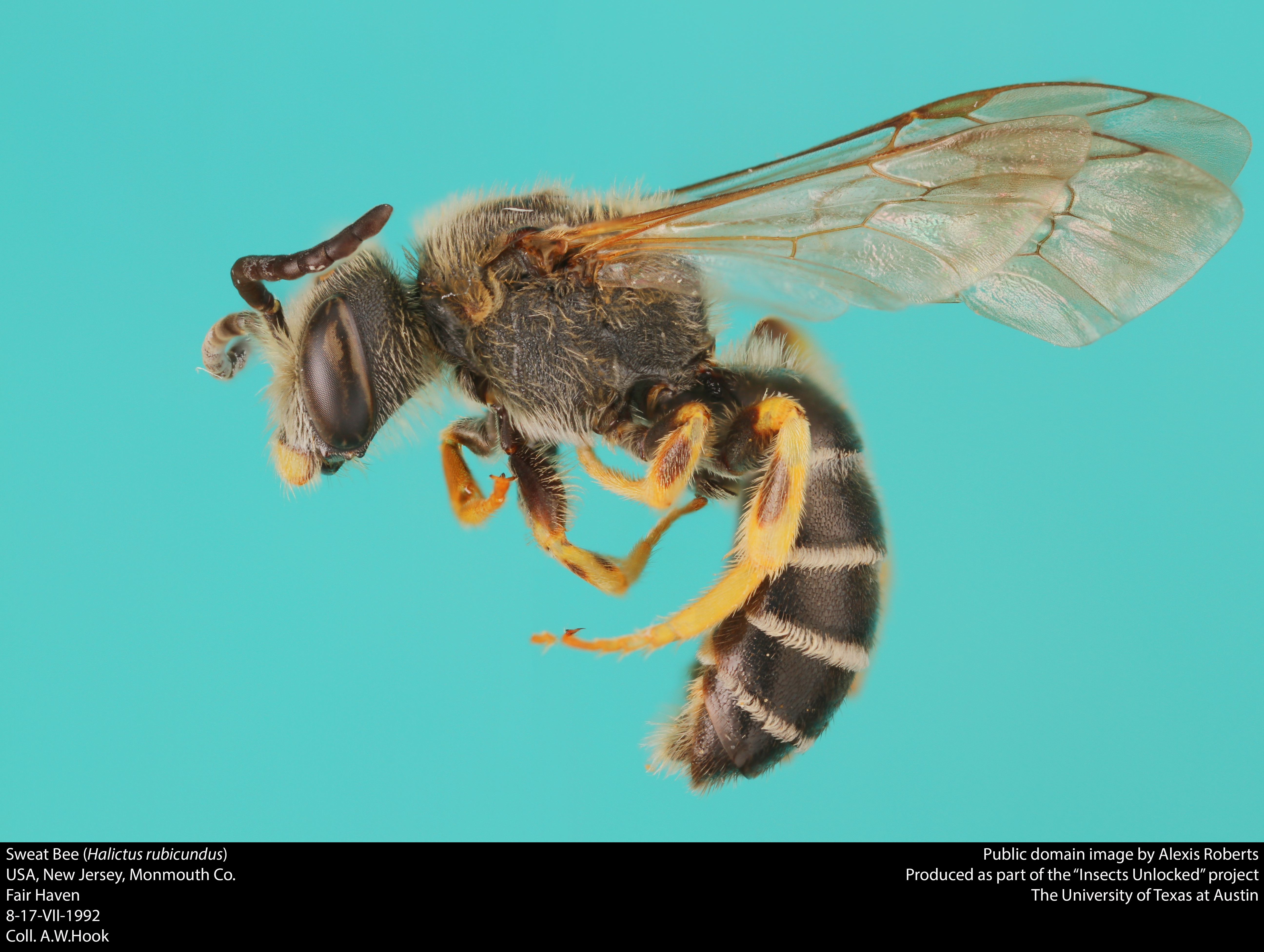 Sweat Bee (Halictus rubicundus) USA, New Jersey, Monmouth Co. Fair Haven 8-17-VII-1992 coll. A.W.Hook Public domain image by Alexis Roberts Produced as part of the “Insects Unlocked” project The University of Texas at Austin This image was created as part of the Insects Unlocked project at the University of Texas at Austin. Based in the UT insect collection at Brackenridge Field Laboratory, part of the Department of Integrative Biology. Do not crop: This image is used on one or more sister projects, where its entire contents are wanted. If you crop it, please save the new image separately, and do not overwrite this one.